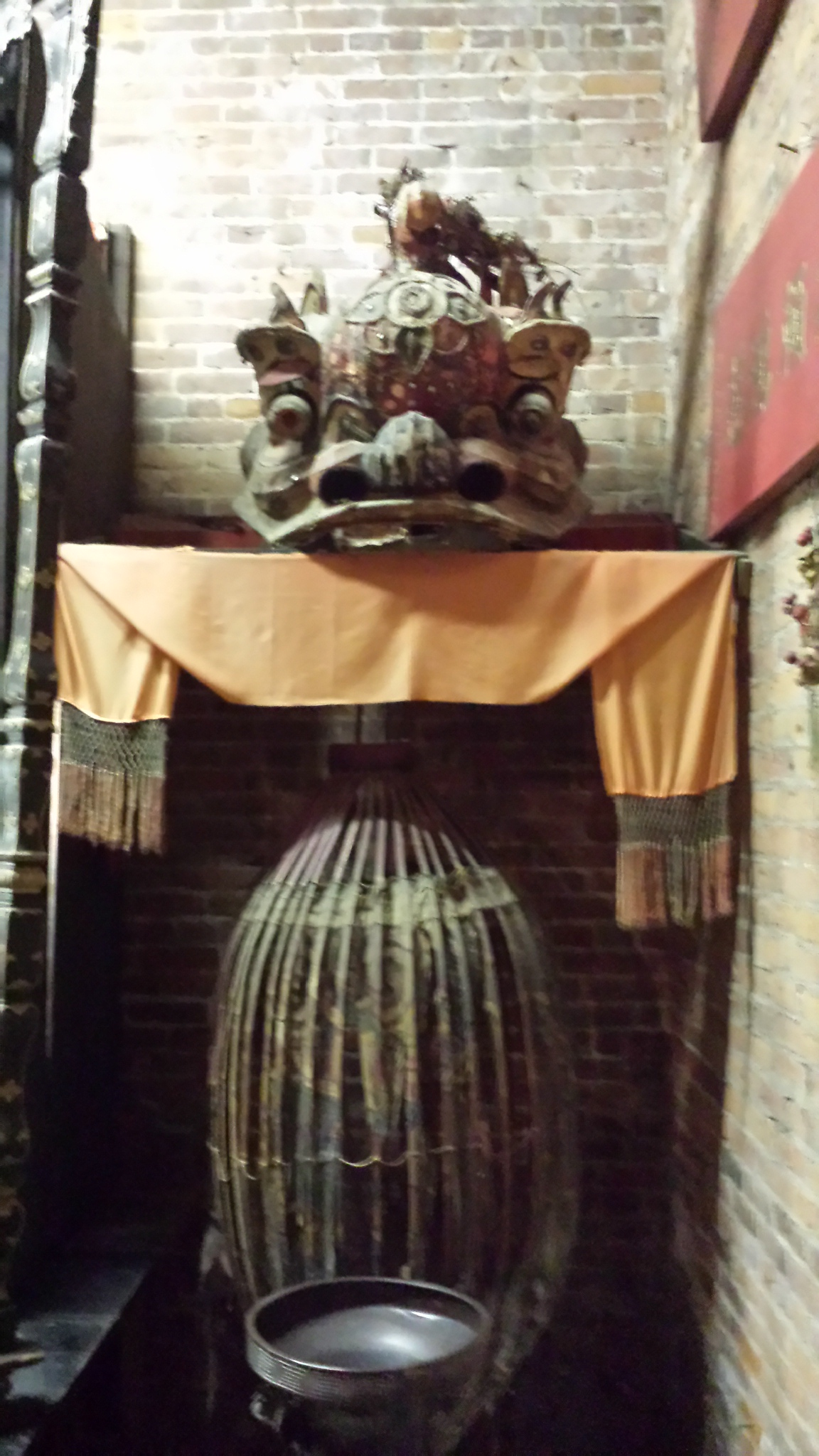 William Collins, photo